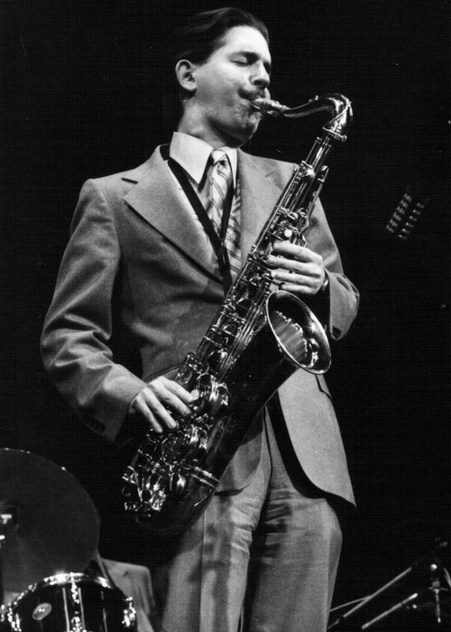 American jazz tenor saxophonist Scott Hamilton in Paris, France